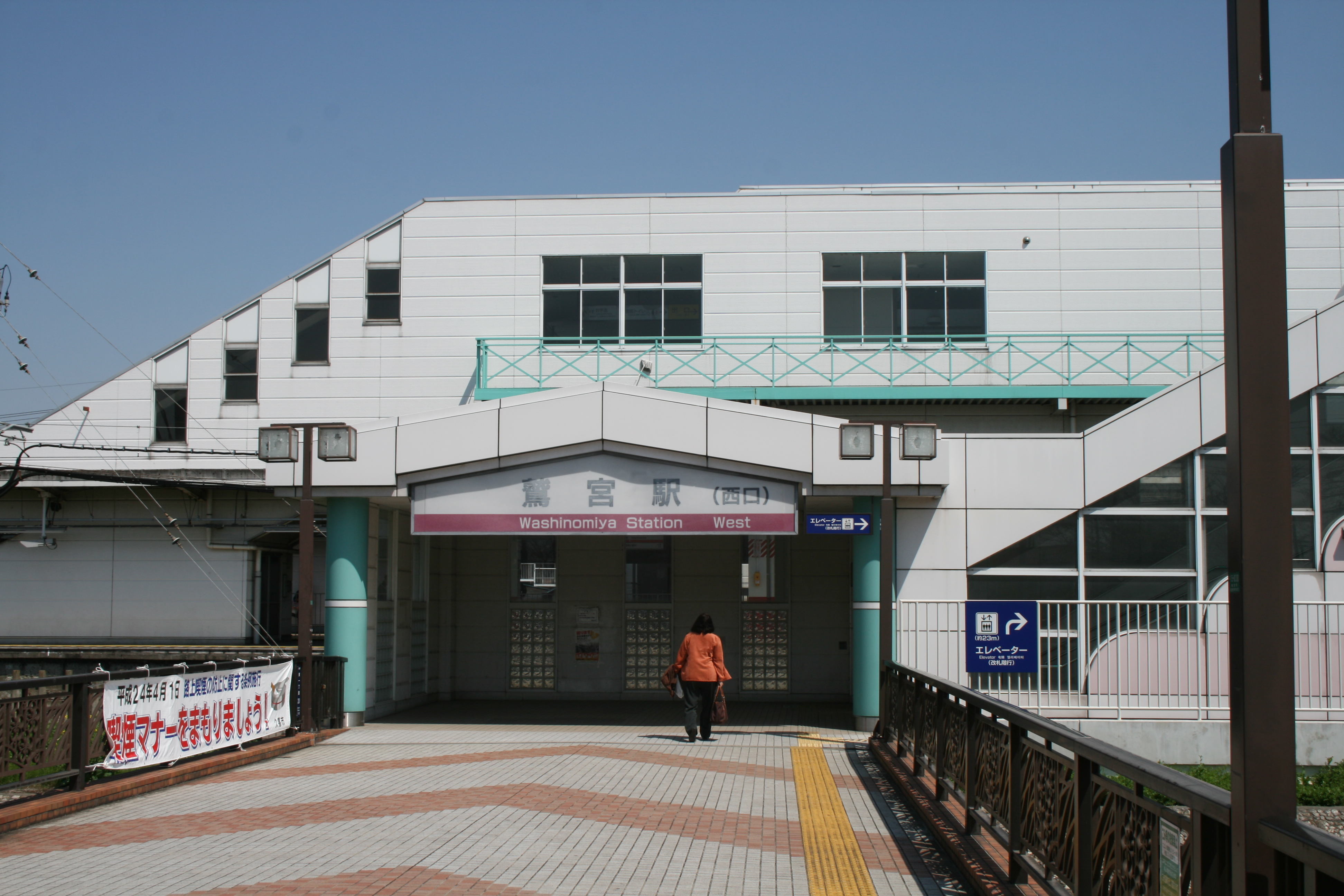 Washinomiya Station West Exit